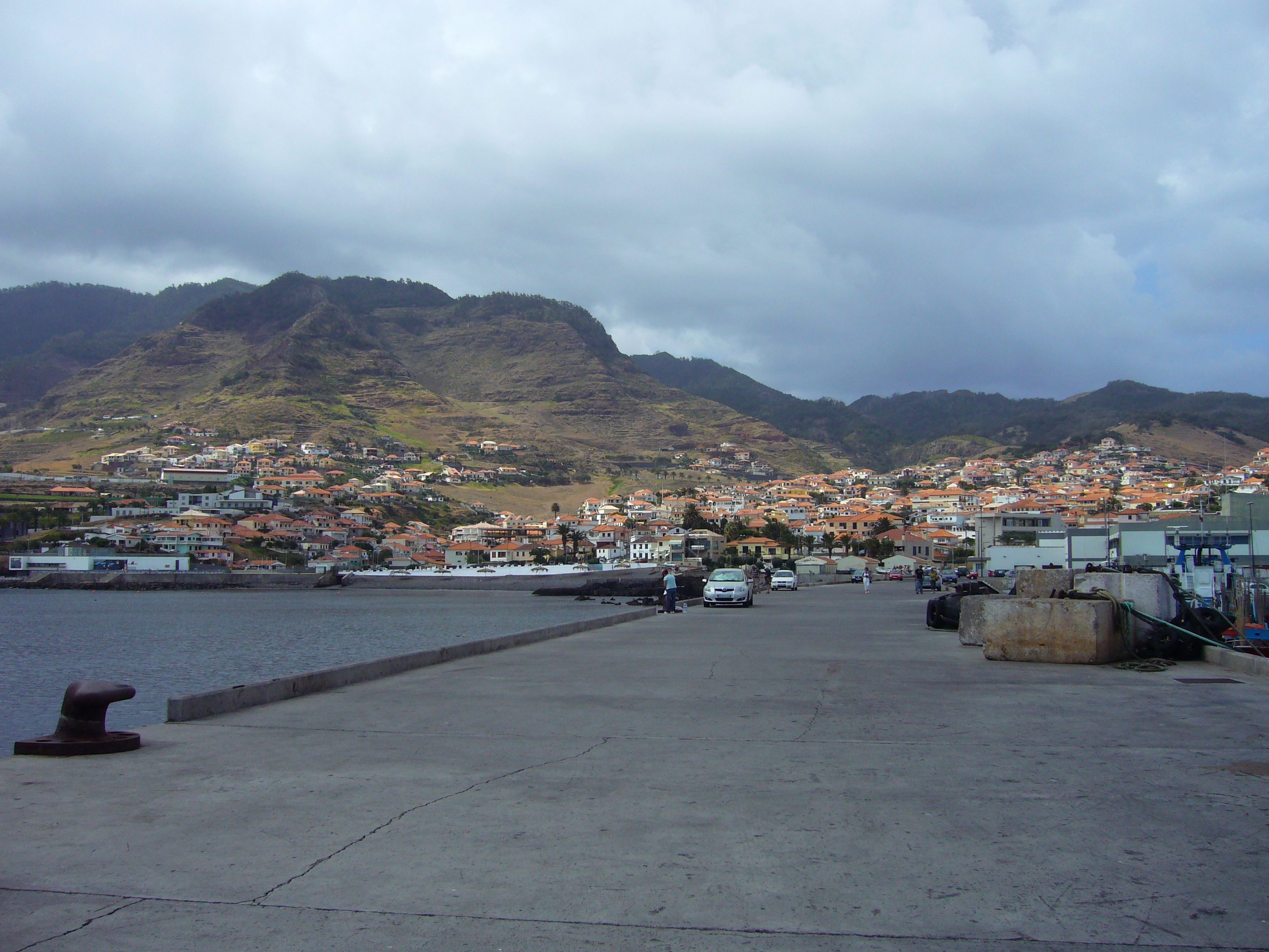 View of Caniçal from the port